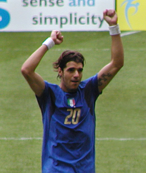 Simone Perrotta, Italy national association football team, 2006 FIFA World Cup.